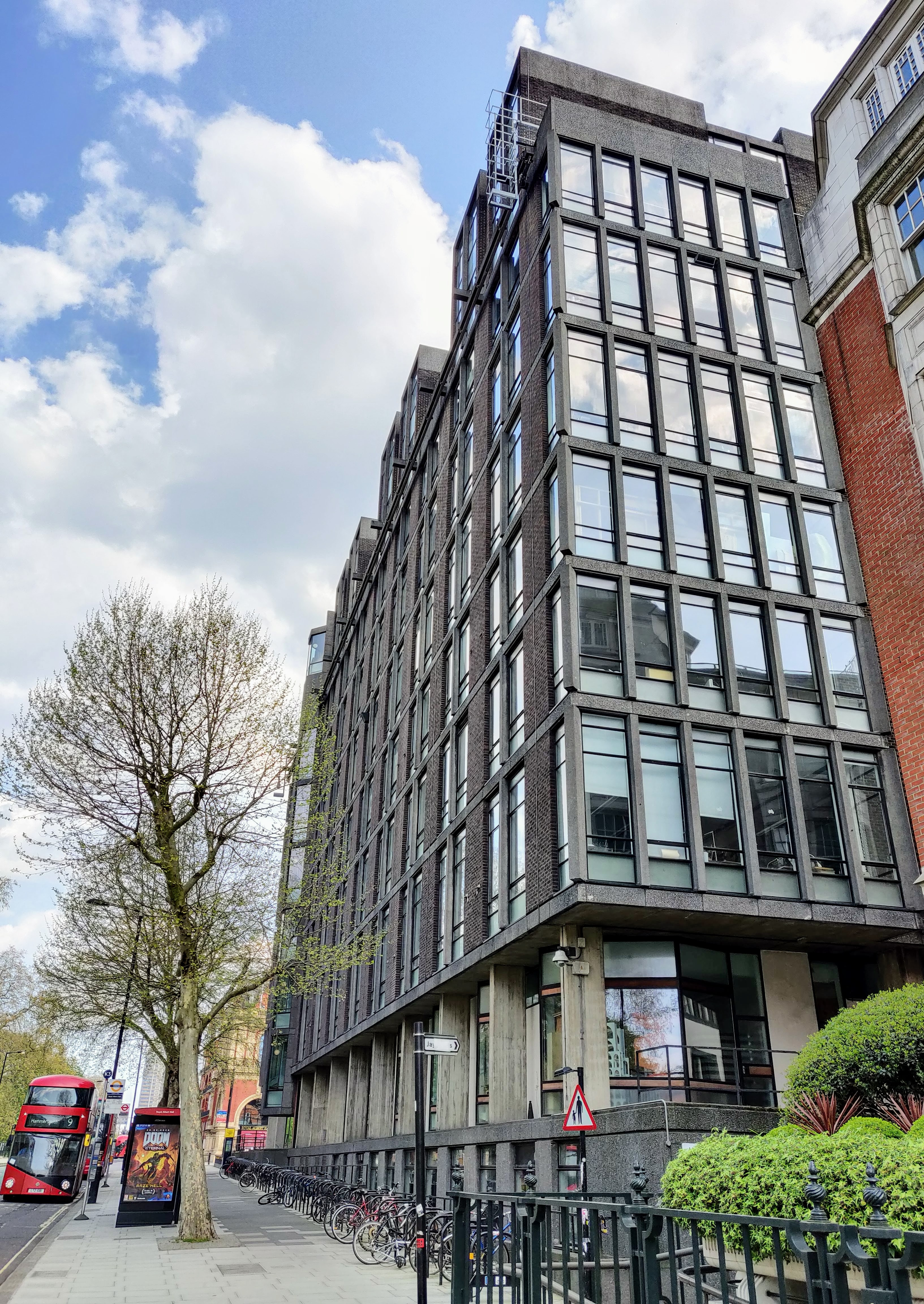 The Darwin Building is the main building of the South Kensington campus of the Royal College of Art. The photograph displays its front side, as seen from Kensington Gore (Kensington Road)